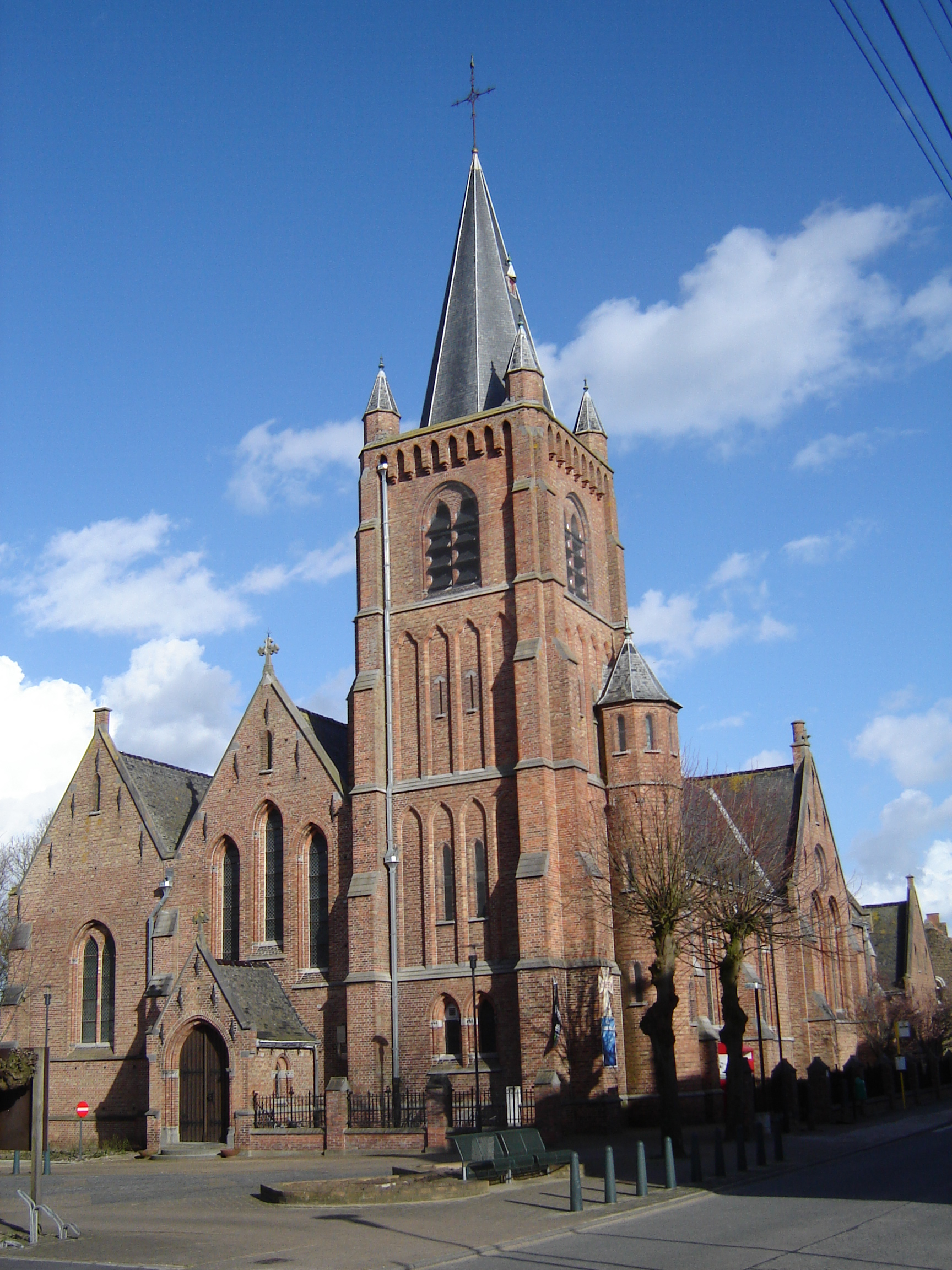 Church of Saint Eligius in Ettelgem (new church, built in 1909). In Ettelgem, Oudenburg, West Flanders, Belgium